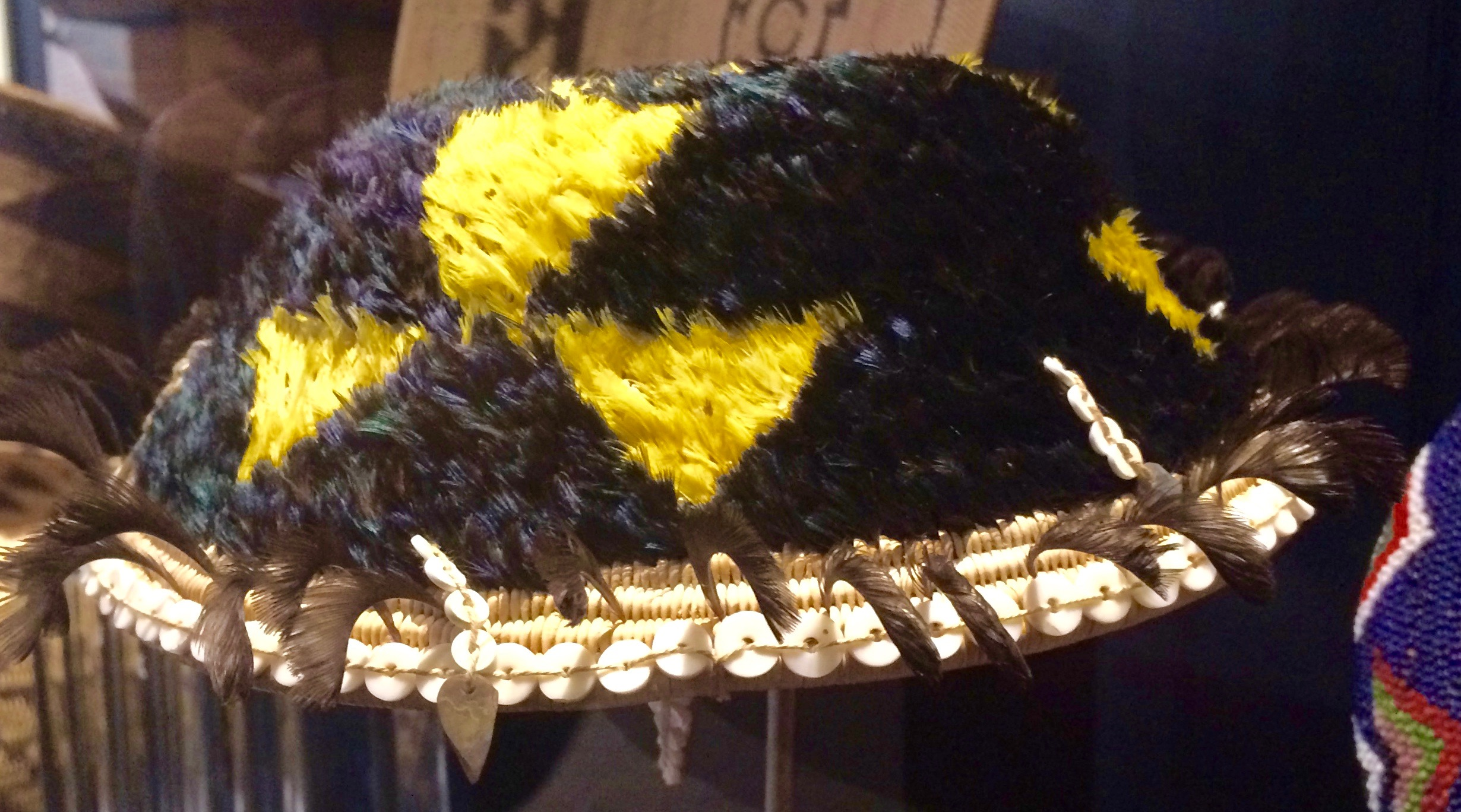 Fully feathered Pomo basket on display at Santa Rosa College